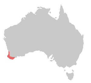 Distribution map of the Long-billed Black Cockatoo (Calyptorhynchus baudinii) which is endemic to only south-western Australia.